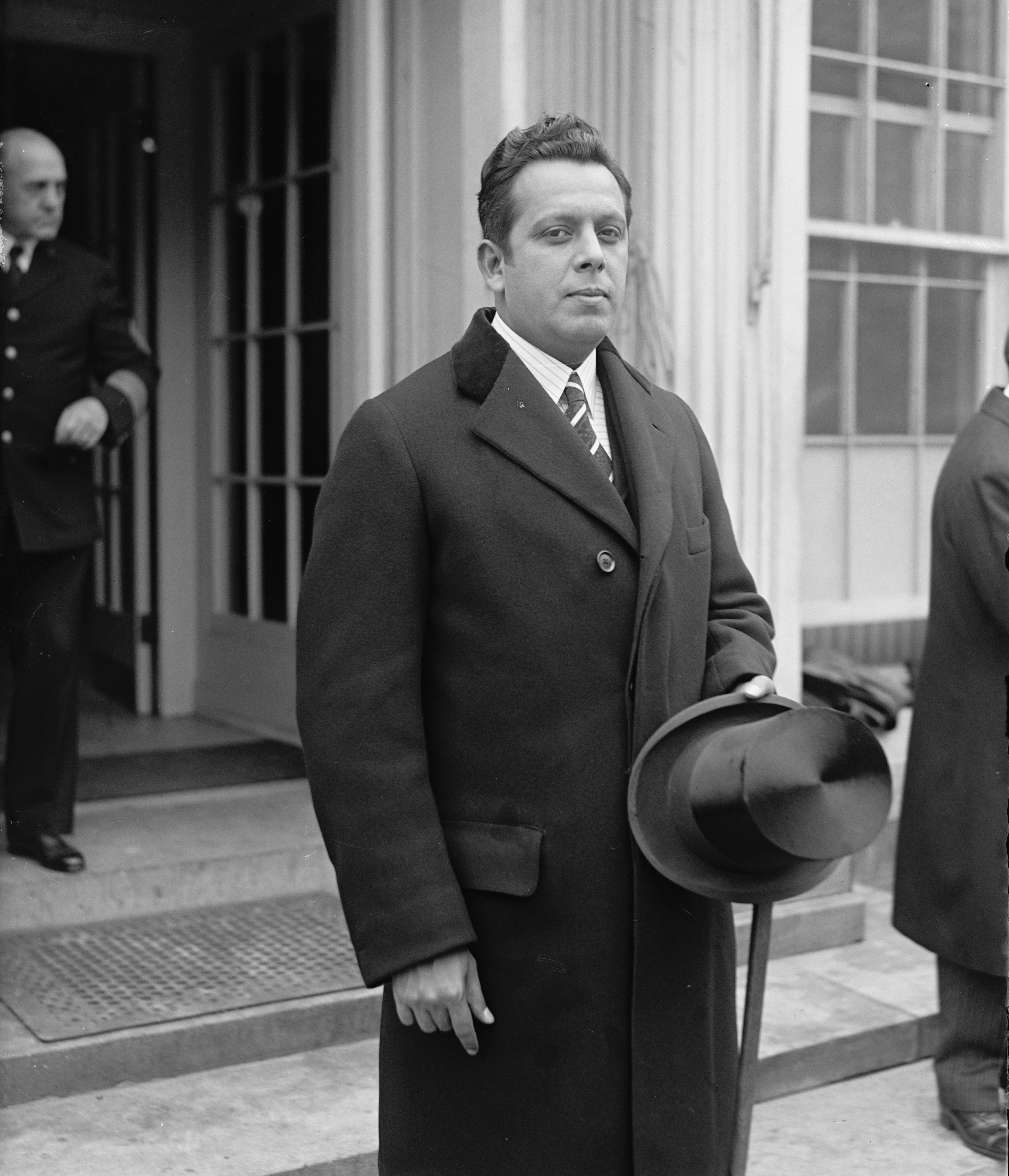 Ezequiel Padilla, Mexican Secretary of Public Education.